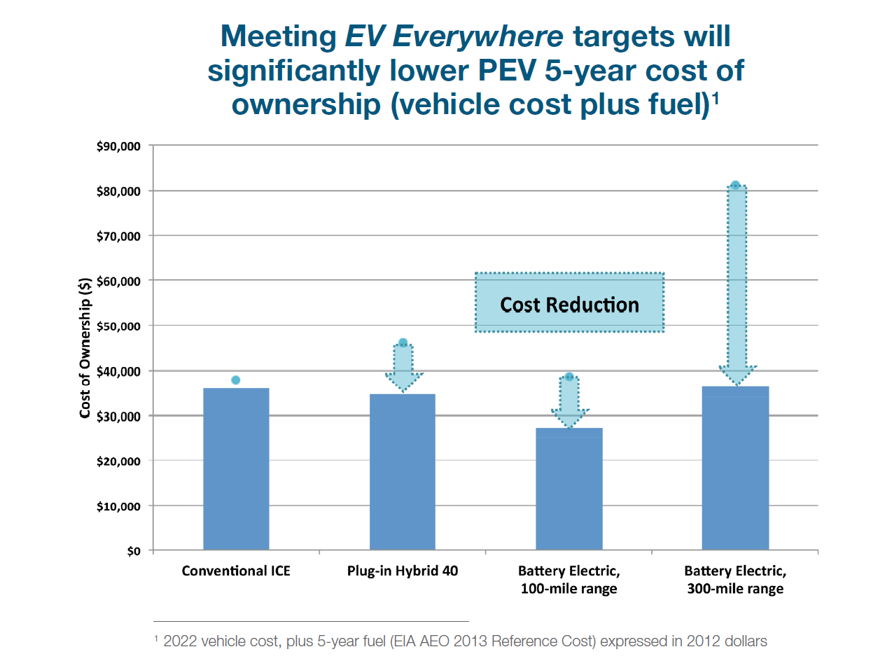 Graph showing how meeting EV Everywhere targets will significantly lower PEV 5-year cost of ownership (vehicle cost plus fuel). EV Everywhere Grand Challenge Blueprint, page 6.